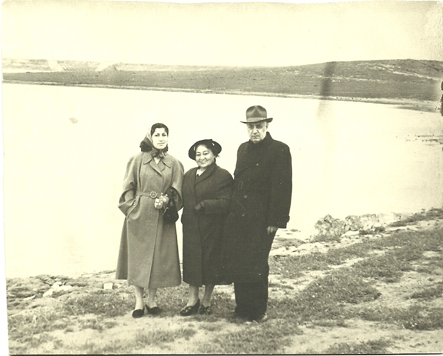 Семья Г.К.Алиева